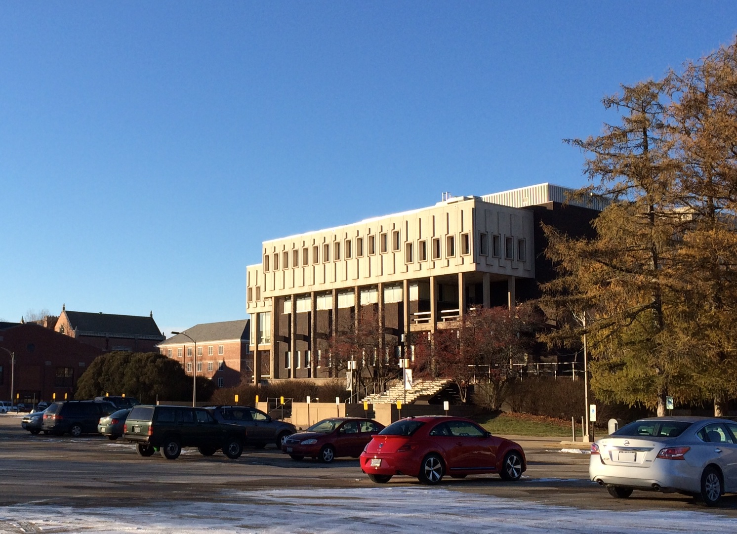 Jack Arends Hall at NIU, November 2013